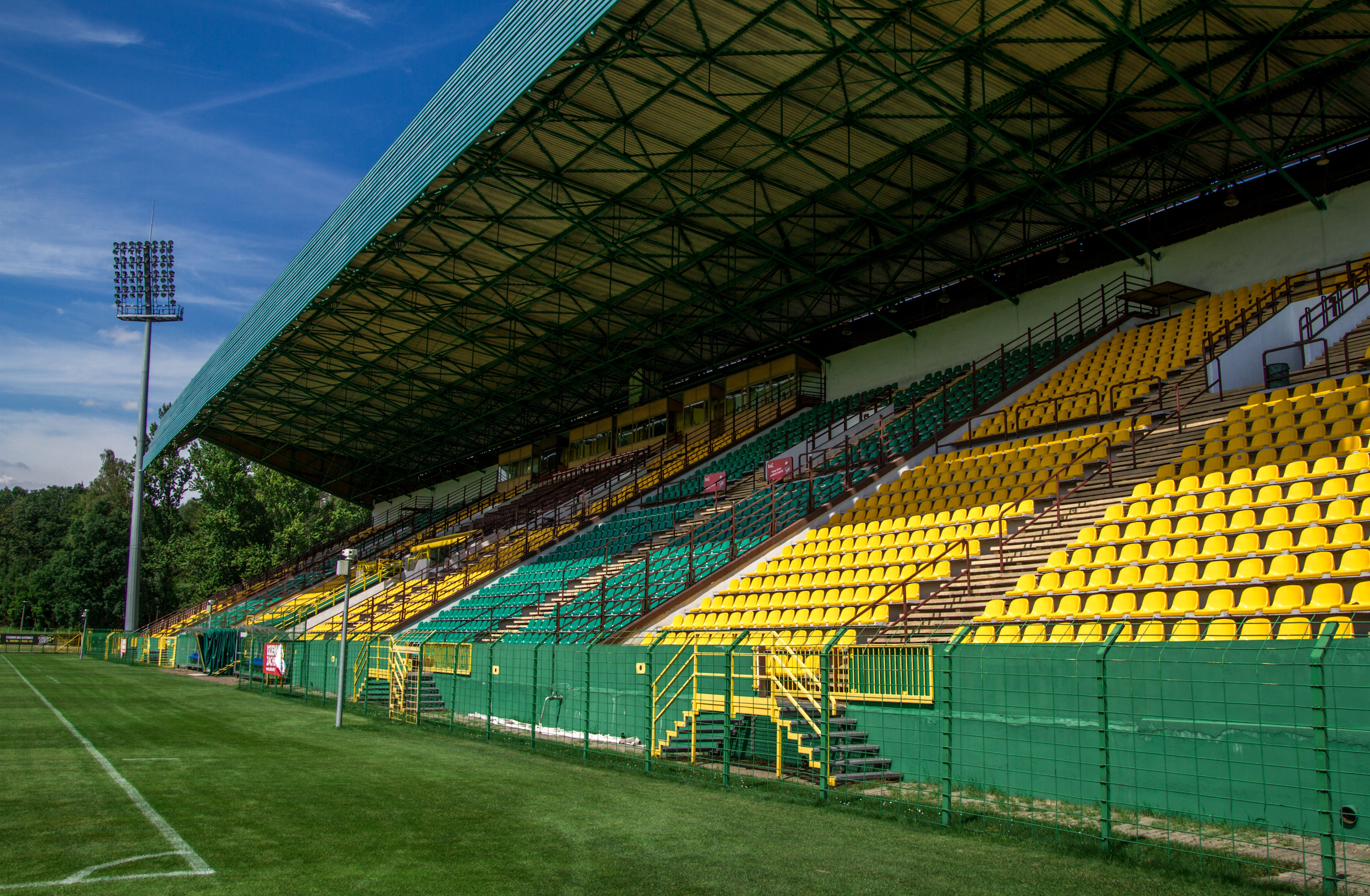 No attribution required, but appreciated If you can credit Visit for more free photos, videos and sounds. More info and photos of GKS Katowice stadium